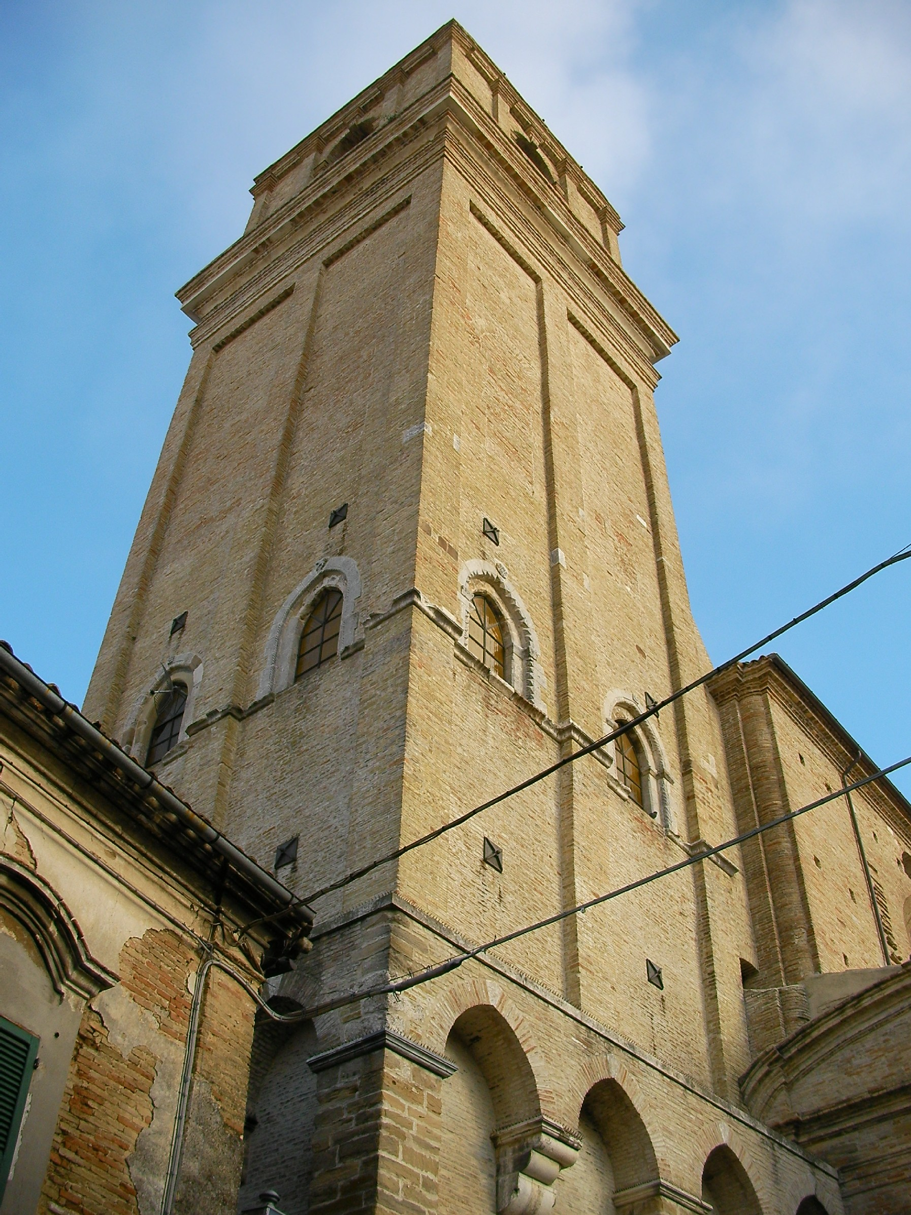 The church of Saint Mary Major, Vasto, province of Chieti, Abruzzo, Italy